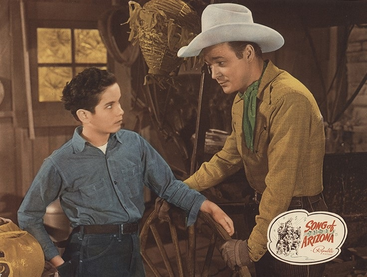 Western Song of Arizona - lobby card (cropped), with Tommy Cook and Roy Rogers